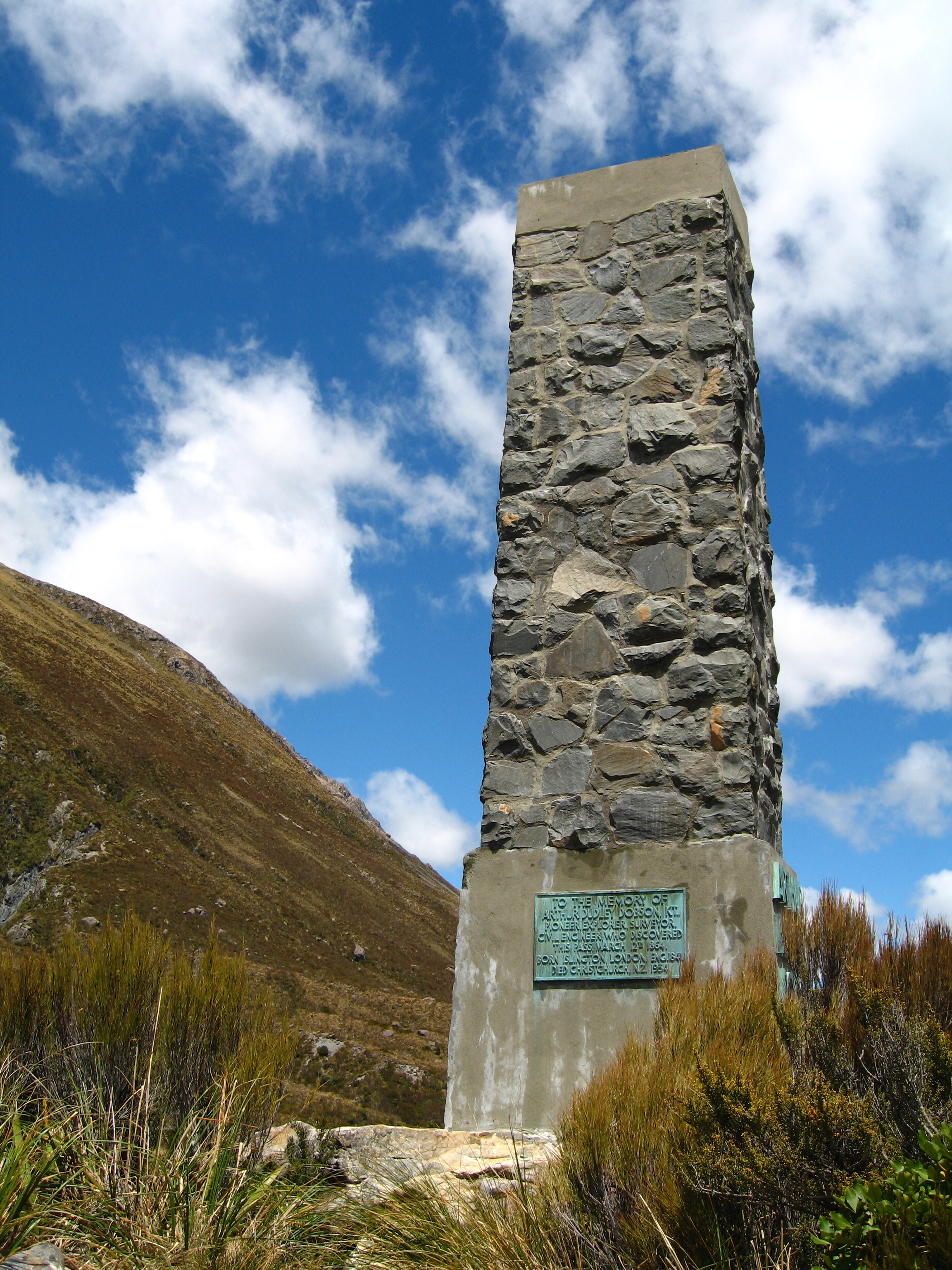 Arthur Dudley Dobson Memorial, near Otira Gorge, New Zealand